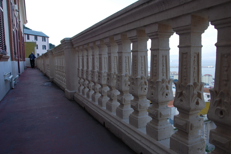 View of Veranda at Sacred Heart School, Gibraltar